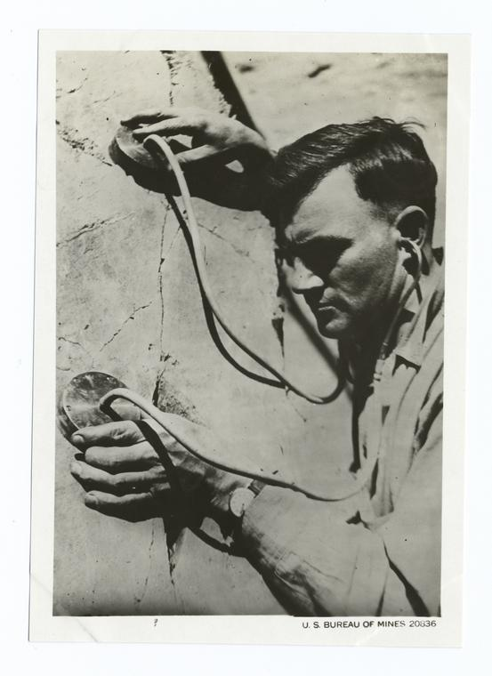 "Man using a geophone" The New York Public Library Digital Collections. 1860 - 1920. The Miriam and Ira D. Wallach Division of Art, Prints and Photographs: Photography Collection, The New York Public Library.